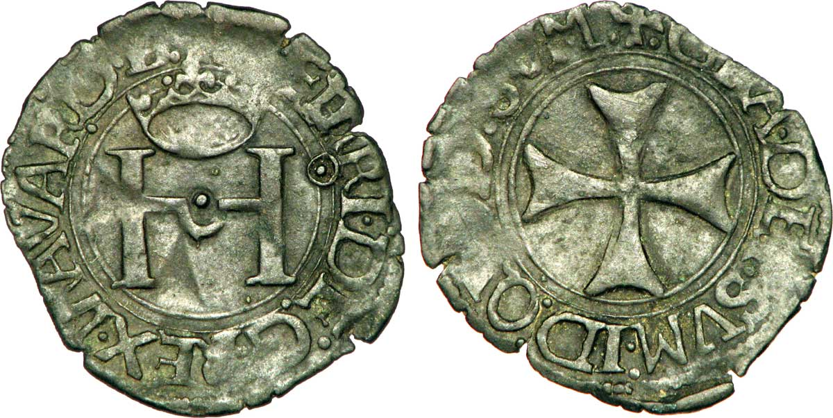 Liard frappé sous le règne d'Henri II de Navarre Date : après 1541 Description avers : Grande H couronnée, un besant au centre du H . Traduction avers : (Henri, par la grâce de Dieu, roi de Navarre et seigneur de Béarn) . Description revers : Croix pattée . Traduction revers : (Grâce à Dieu, je suis ce que je suis) .